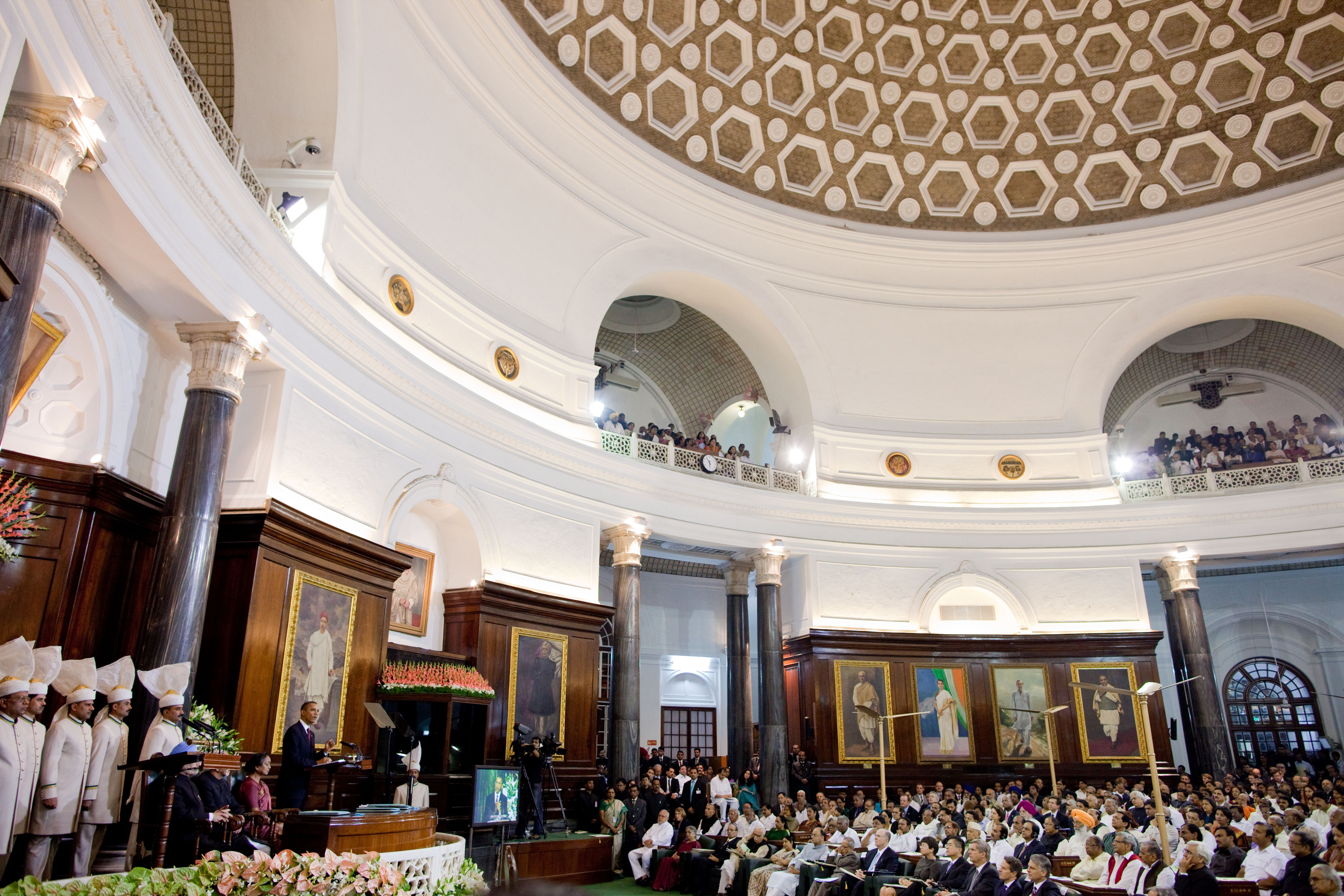 2010: President of the United States of America Barack Obama at the Parliament of India in New Delhi addressing Members of Parliament of both houses in a Joint Session of the Parliament of India.